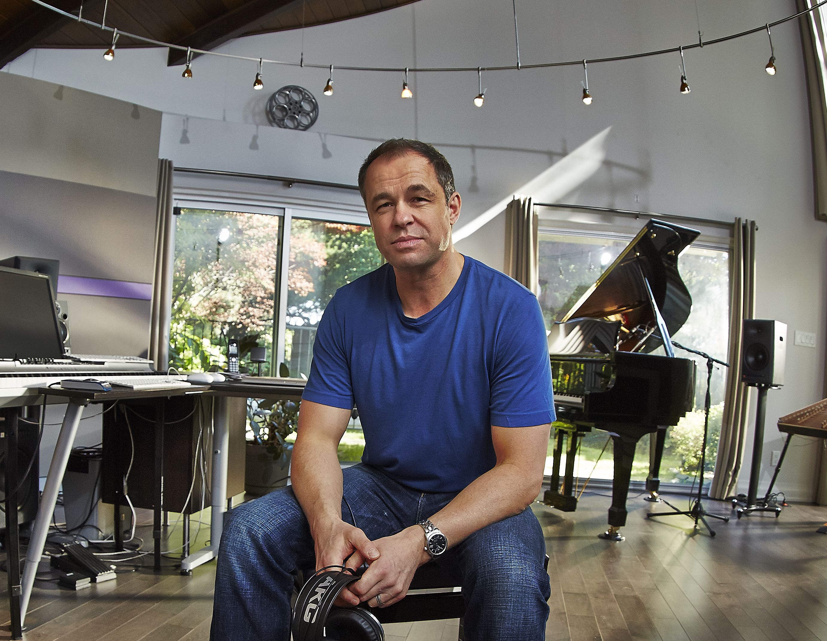 Gary Koftinoff is an award winning composer of music for film and television.